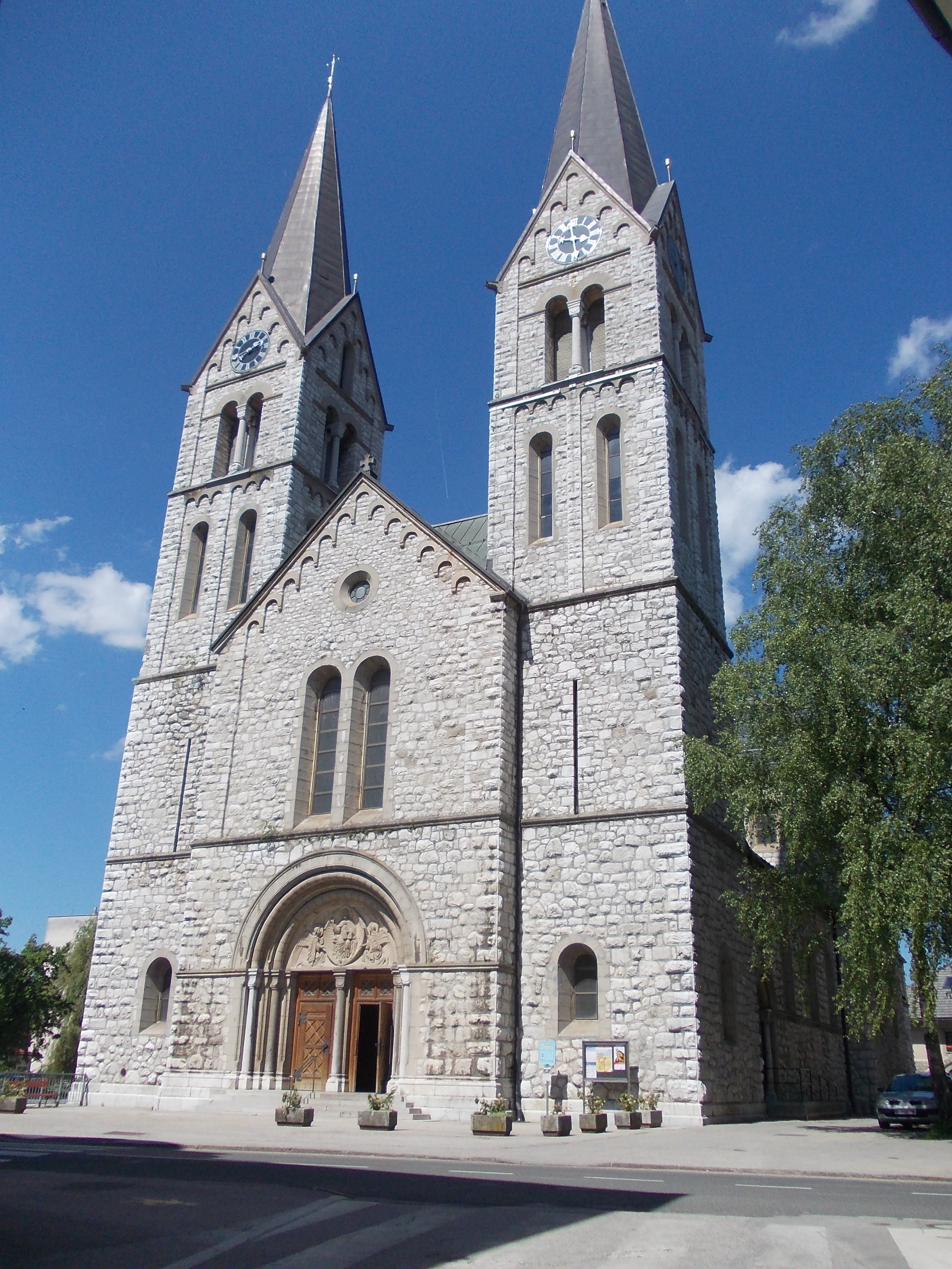 Saint Bartholomew Church, Kočevje